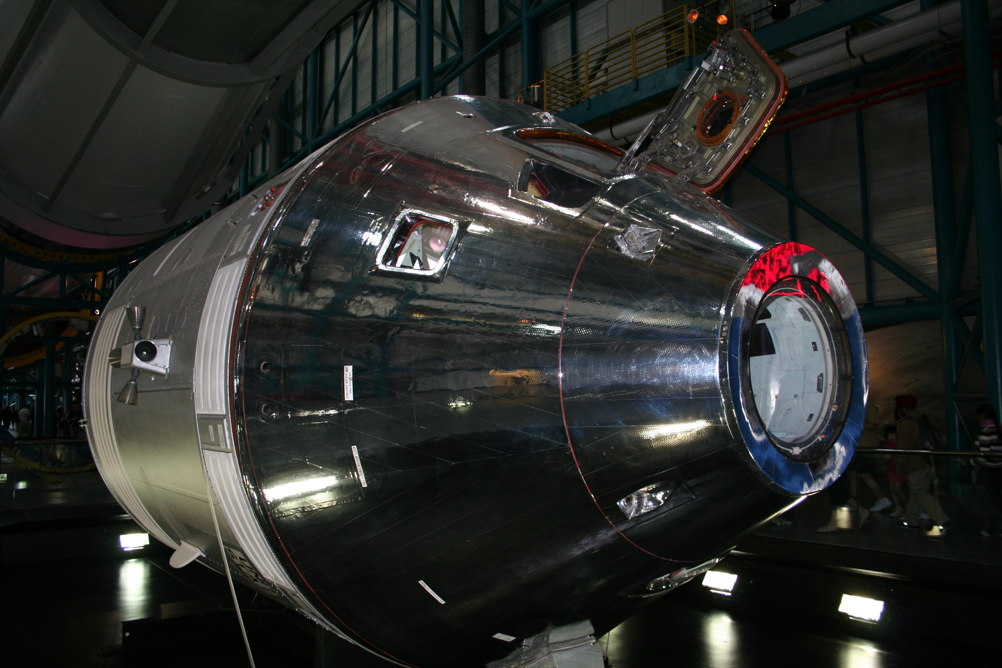 Apollo Command/Service Module CSM-119, on display at the Apollo/Saturn V Center in Florida.